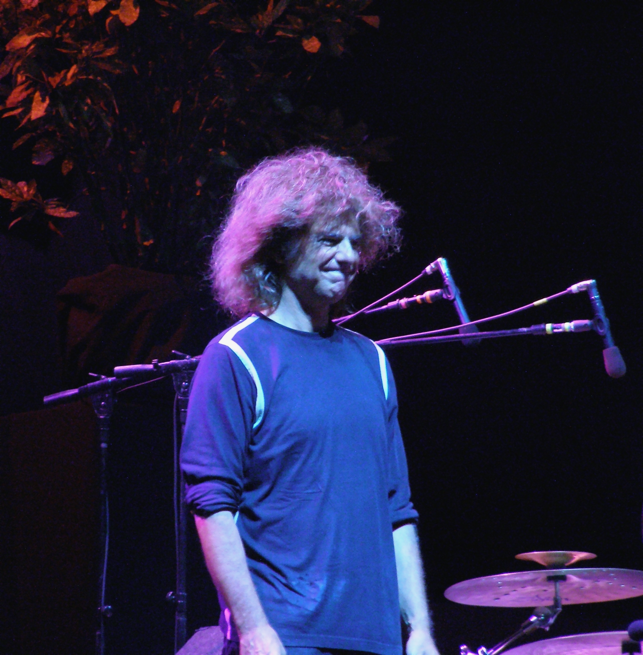 Pat Metheny at Milano Jazzin' Festival in the Arena civica of Milan during his concert whith the Gary Burton Quartet on the 16th July 2008.